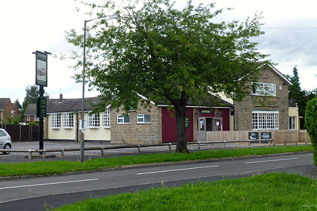 Silver Ghost pub, Alveston.